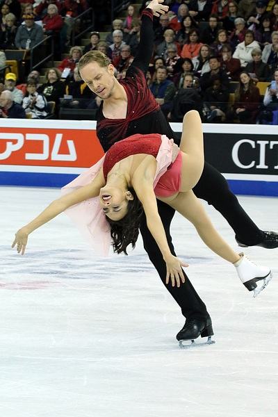 Madison Chock and Evan Bates at the 2016 World Championships